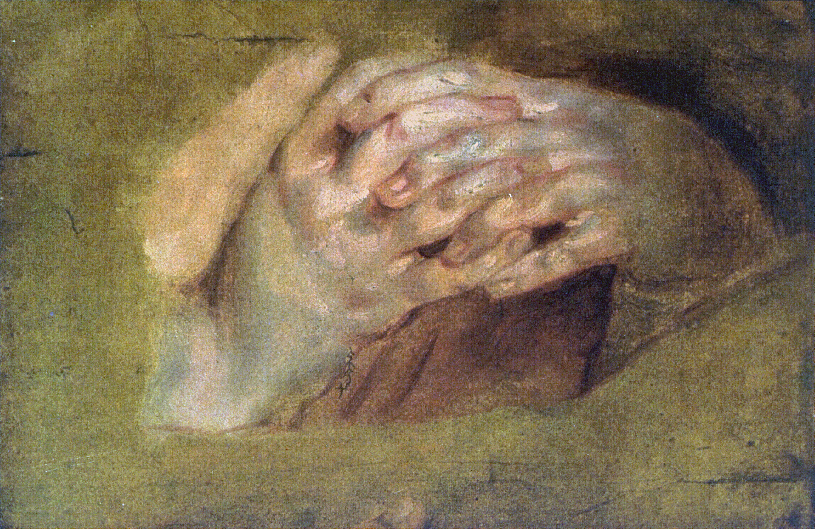 Praying Hands